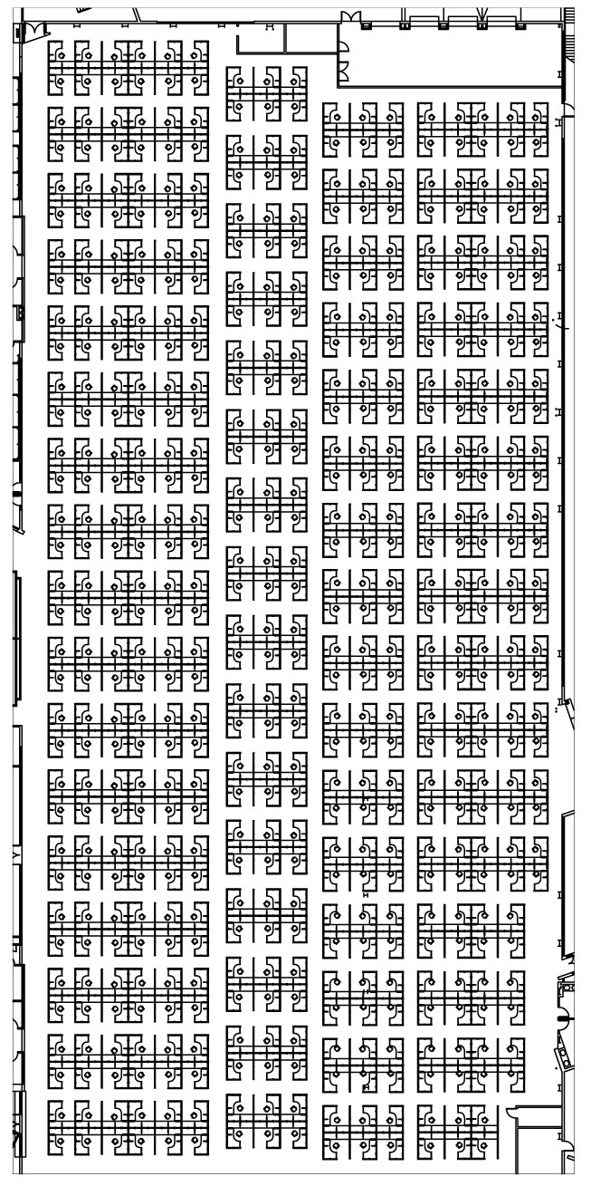 a sea of cubicles open office layout